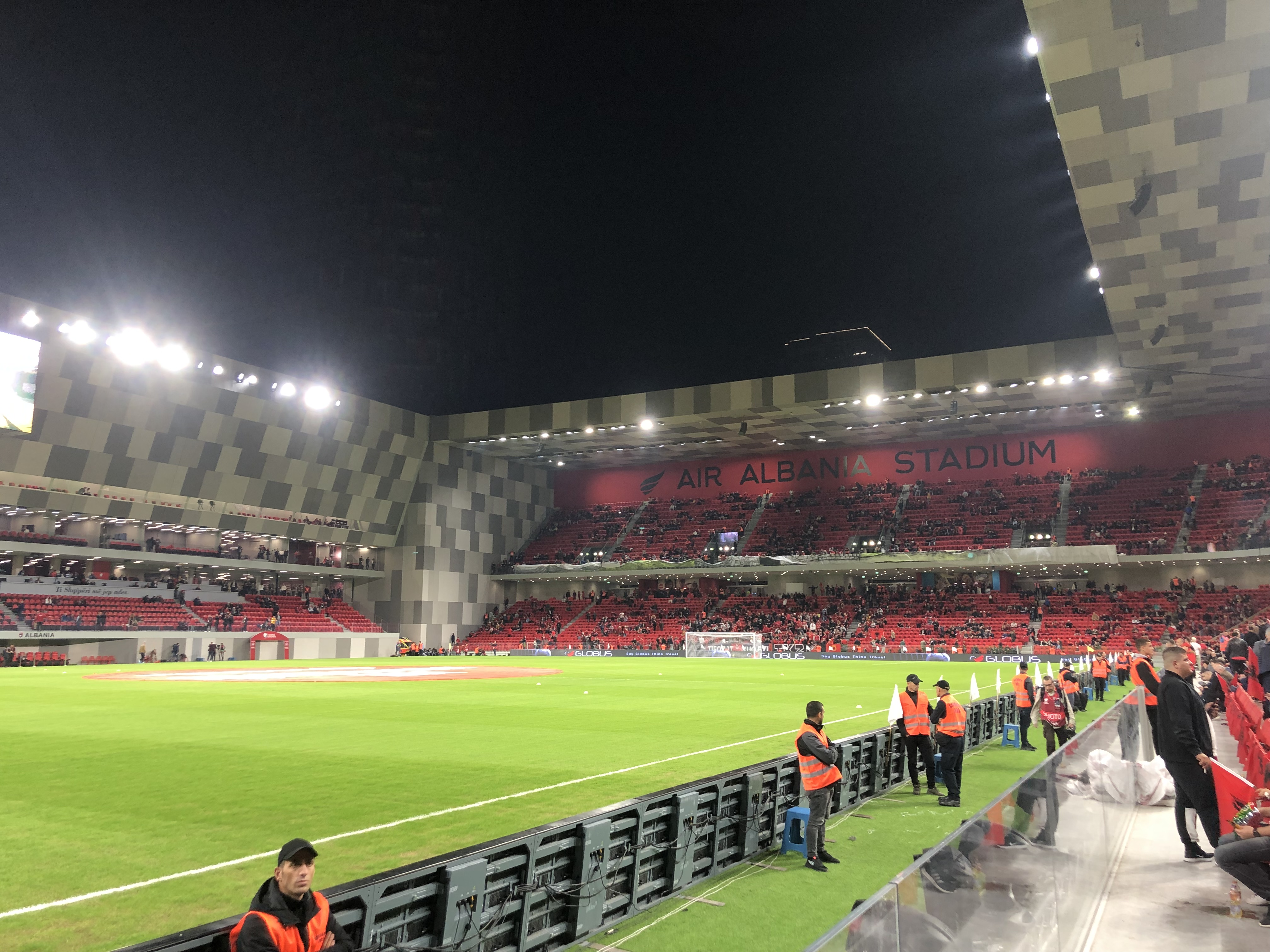 view of thenew Air Albania Stadium in Tirana, Albania